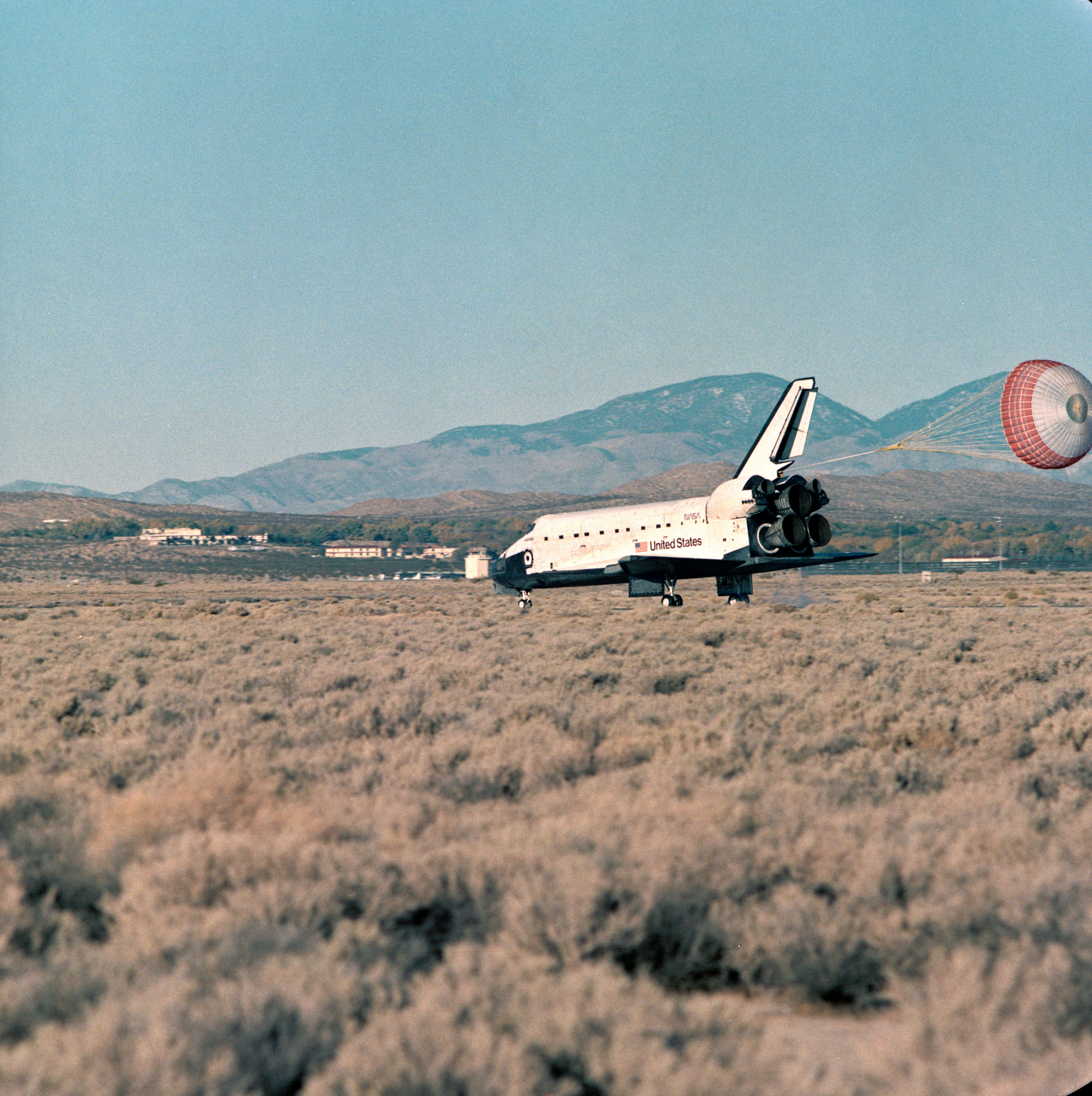 The drag chute is fully deployed as the Space Shuttle Atlantis heads toward a stop at Edwards Air Force Base in southern California, ending a successful 10 day, 22 hour and 34 minute space mission. Landing occurred at 7:34 a.m. (PST), November 14, 1994.